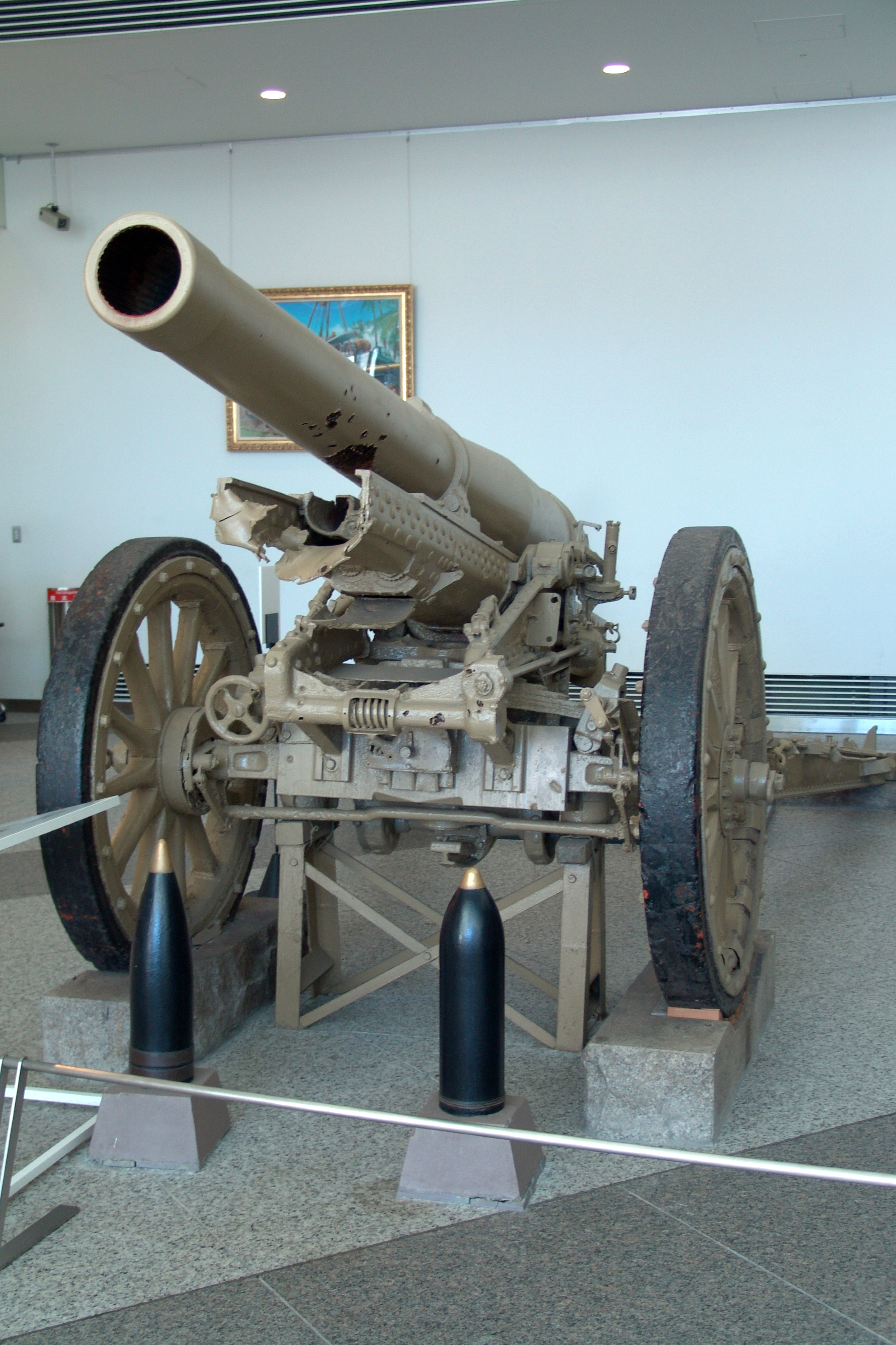 Photograph showing front view of Japanese Type 96 15 cm Howitzer at the Yasukuni Shrine. See also File:Japanese Type 96 15 cm Howitzer.jpg for view of same gun from above.